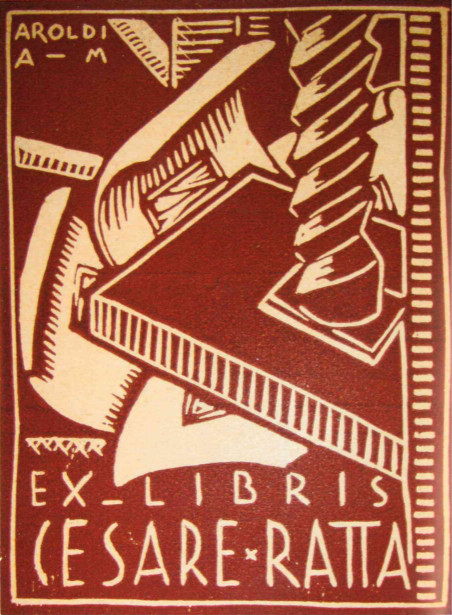 Ex libris, Cesare Ratta, Italian printmaker